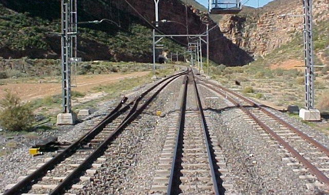 Hex River Tunnel 4, Western Portal approach. Tunnel 4 is 13,7 Km long. The four-tunnel system eliminated the Hex River Railpass that was the reason why Standard Gauge (4' 8½") was replaced by Cape Standard (3' 6") in the 1870s. Location: Hex River Valley, De Doorns, Western Cape